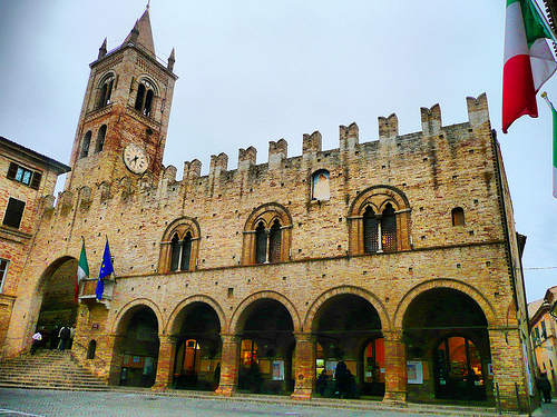 Montecassiano - Podestà's palace